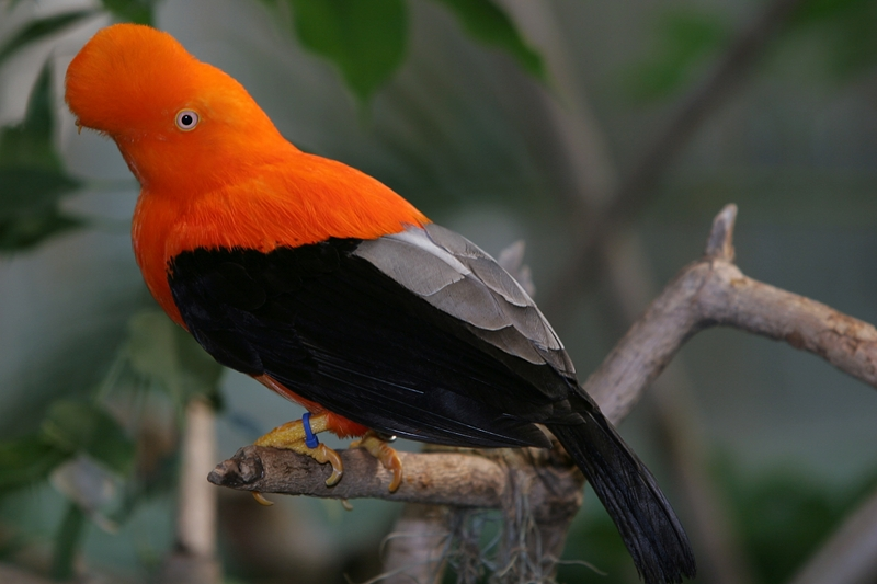 Andean Cock-of-the-rock (Rupicola peruviana). A male at San Diego Zoo, USA.